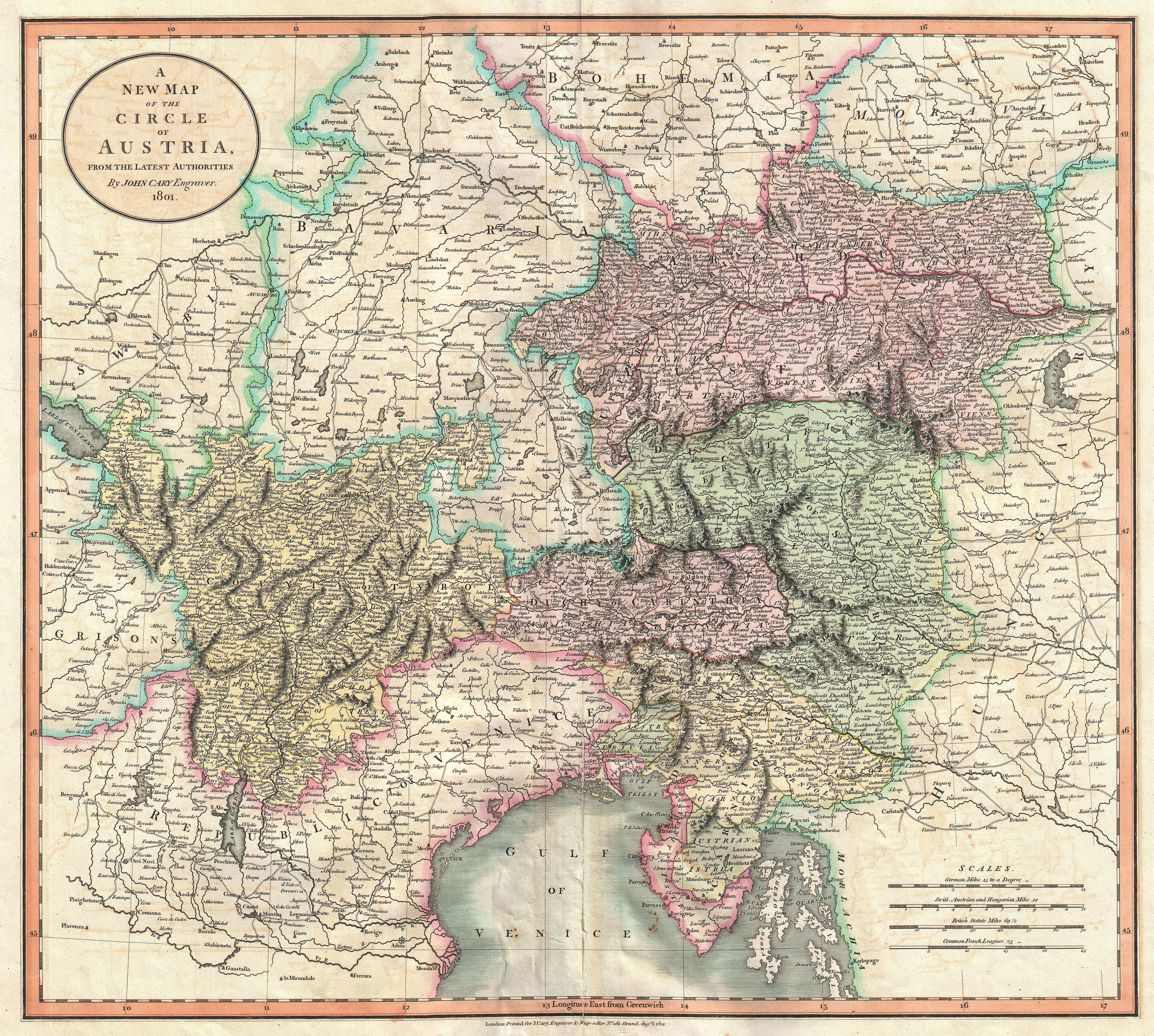 An extremely attractive example of John Cary’s important 1801 map of the Austria. Covers from Lake Constance eastward as far as Lake Pelso and the Hungarian border. Extends southward to include the Duchy of Tyrol, the Republic of Venice and the Gulf of Venice. Extends northward as far as Bavaria, Bohemia and Moravia. Offers stupendous detail and color coding according to region. All in all, one of the most interesting and attractive atlas maps the Austrian Empire to appear in first years of the 19th century. Prepared in 1801 by John Cary for issue in his magnificent 1808 New Universal Atlas .